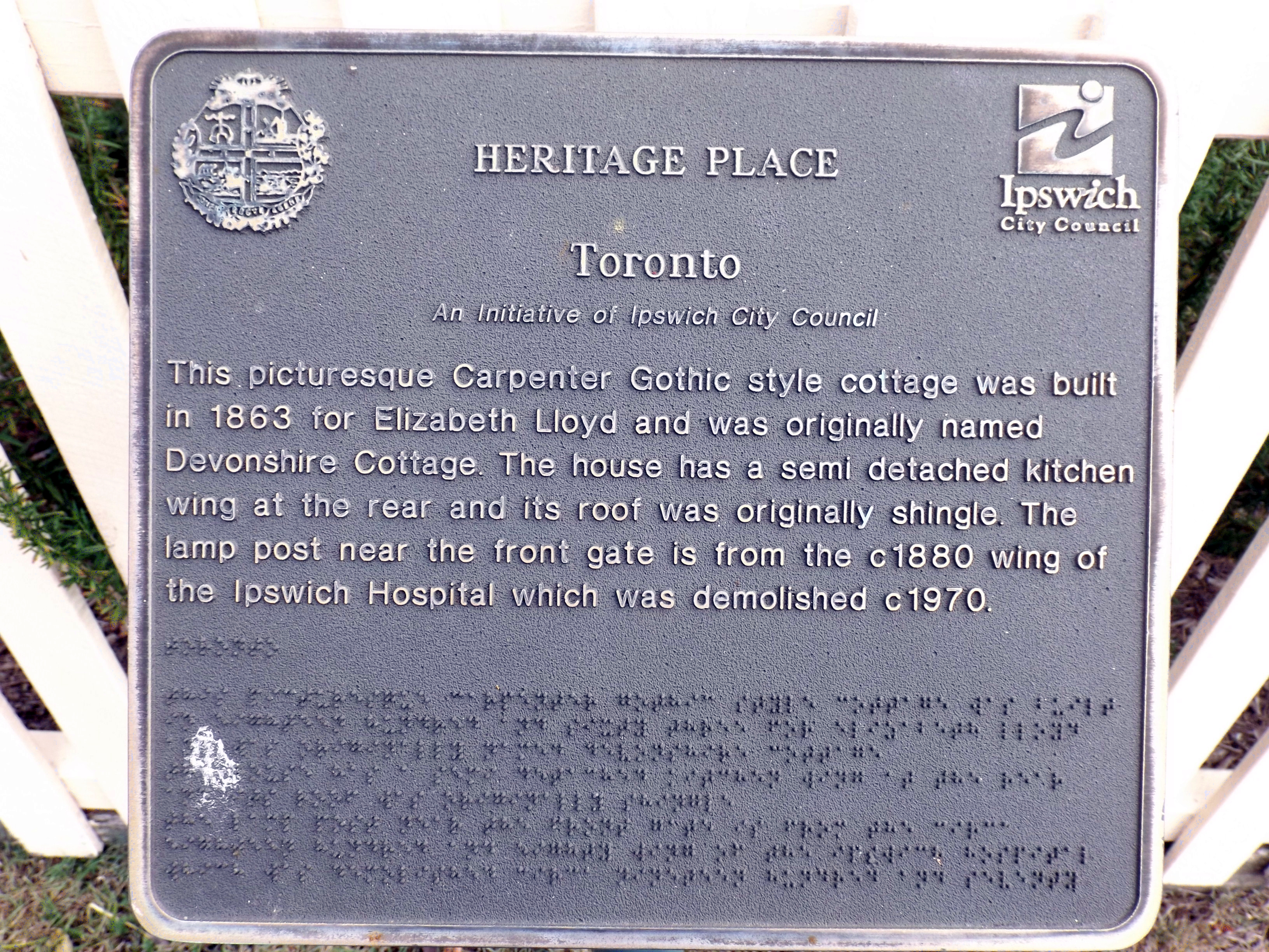 Photo of plaque at the Toronto residence, Ipswich, Queensland, Australia.